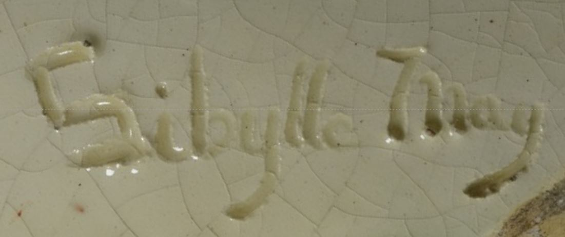 Signature of Sibylle May